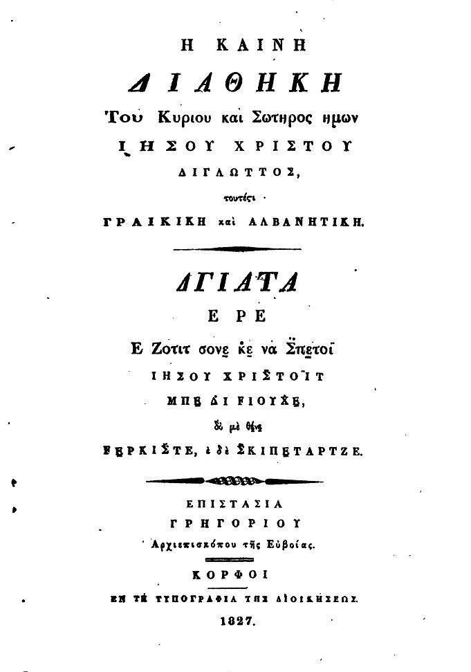 First Page of the "Dhjata e re" in Albanian, published in Greek characters, in 1827.